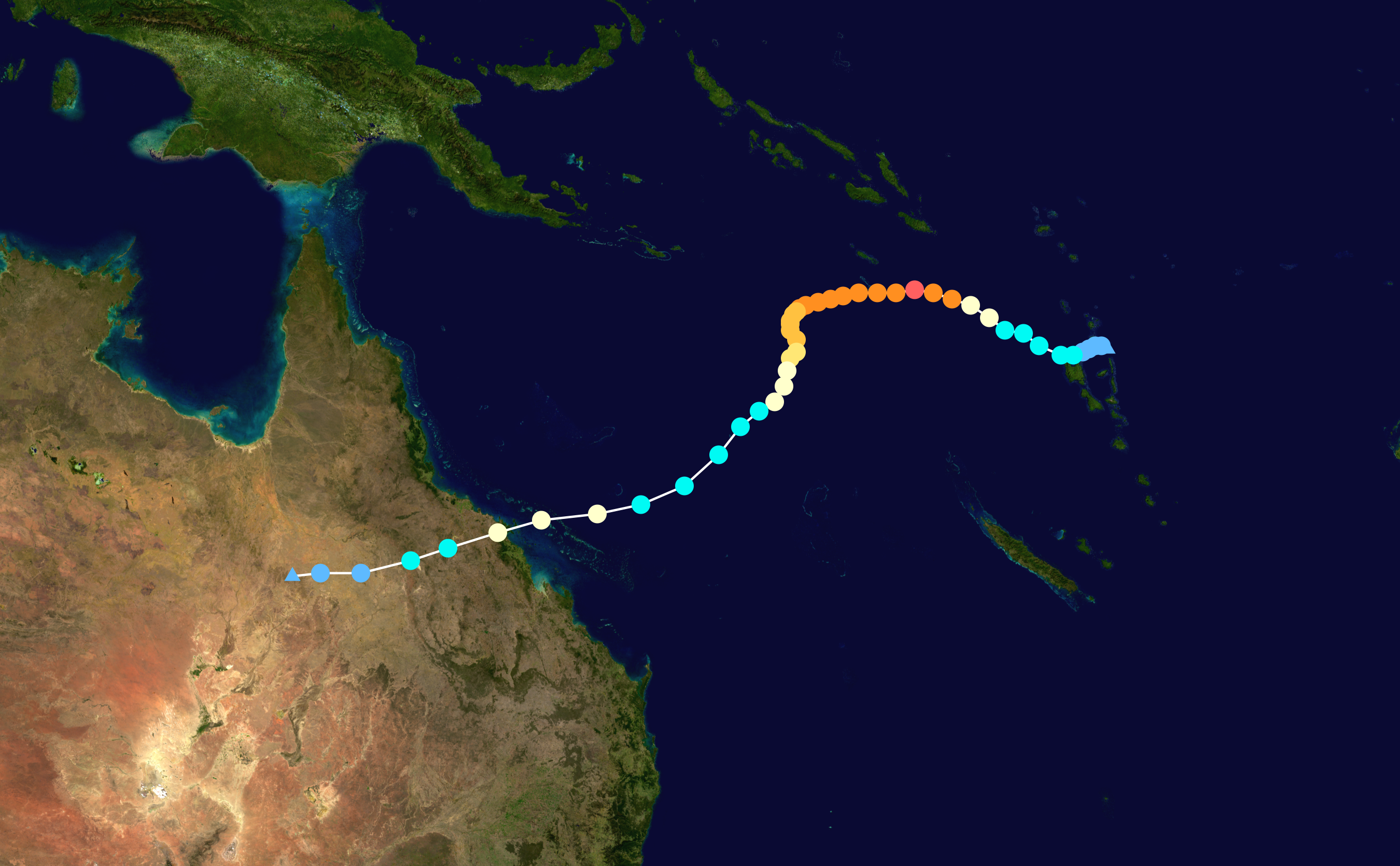 Track map of Severe Tropical Cyclone Ului of the 2009-10 South Pacific cyclone season and the 2009-10 Australian region cyclone season. The points show the location of the storm at 6-hour intervals. The colour represents the storm's maximum sustained wind speeds as classified in the Saffir–Simpson scale (see below), and the shape of the data points represent the nature of the storm, according to the legend below. Saffir–Simpson scale Tropical depression≤38 mph≤62 km/h Category 3111–129 mph178–208 km/h Tropical storm39–73 mph63–118 km/h Category 4130–156 mph209–251 km/h Category 174–95 mph119–153 km/h Category 5≥157 mph≥252 km/h Category 296–110 mph154–177 km/h Unknown Storm type Tropical cyclone Subtropical cyclone Extratropical cyclone / Remnant low / Tropical disturbance / Monsoon depression